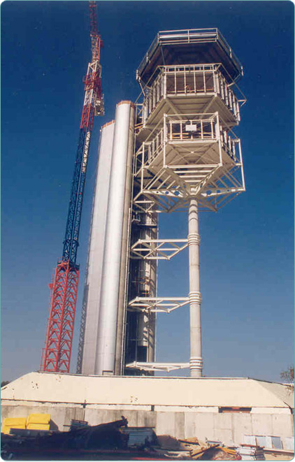 Control Tower (Alicante Airport)